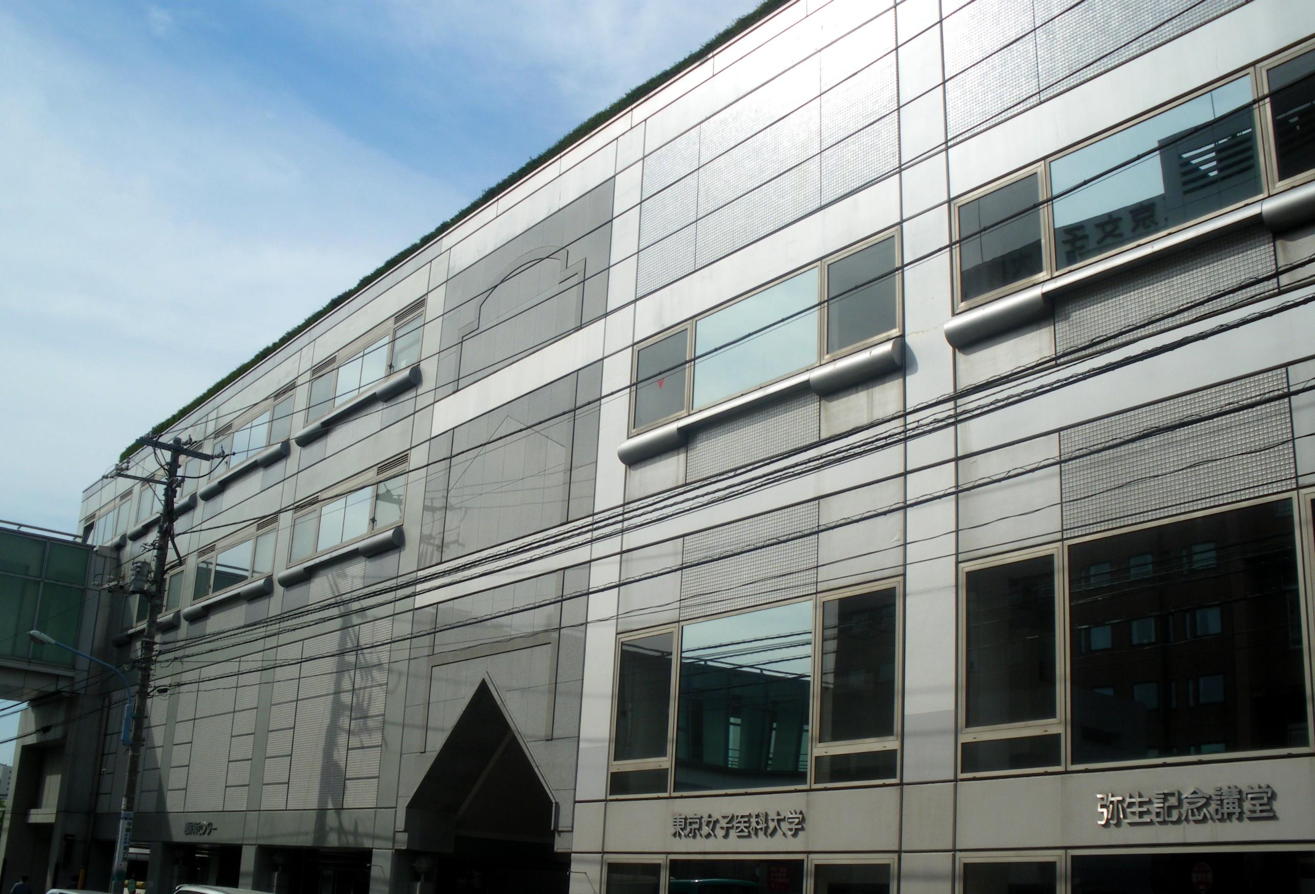 A photo of Tokyo Women's Medical University Hospital Yayoi Memorial Hall and Diabetes Center,Kawadacho,Shinjuku-ku,Tokyo,Japan.